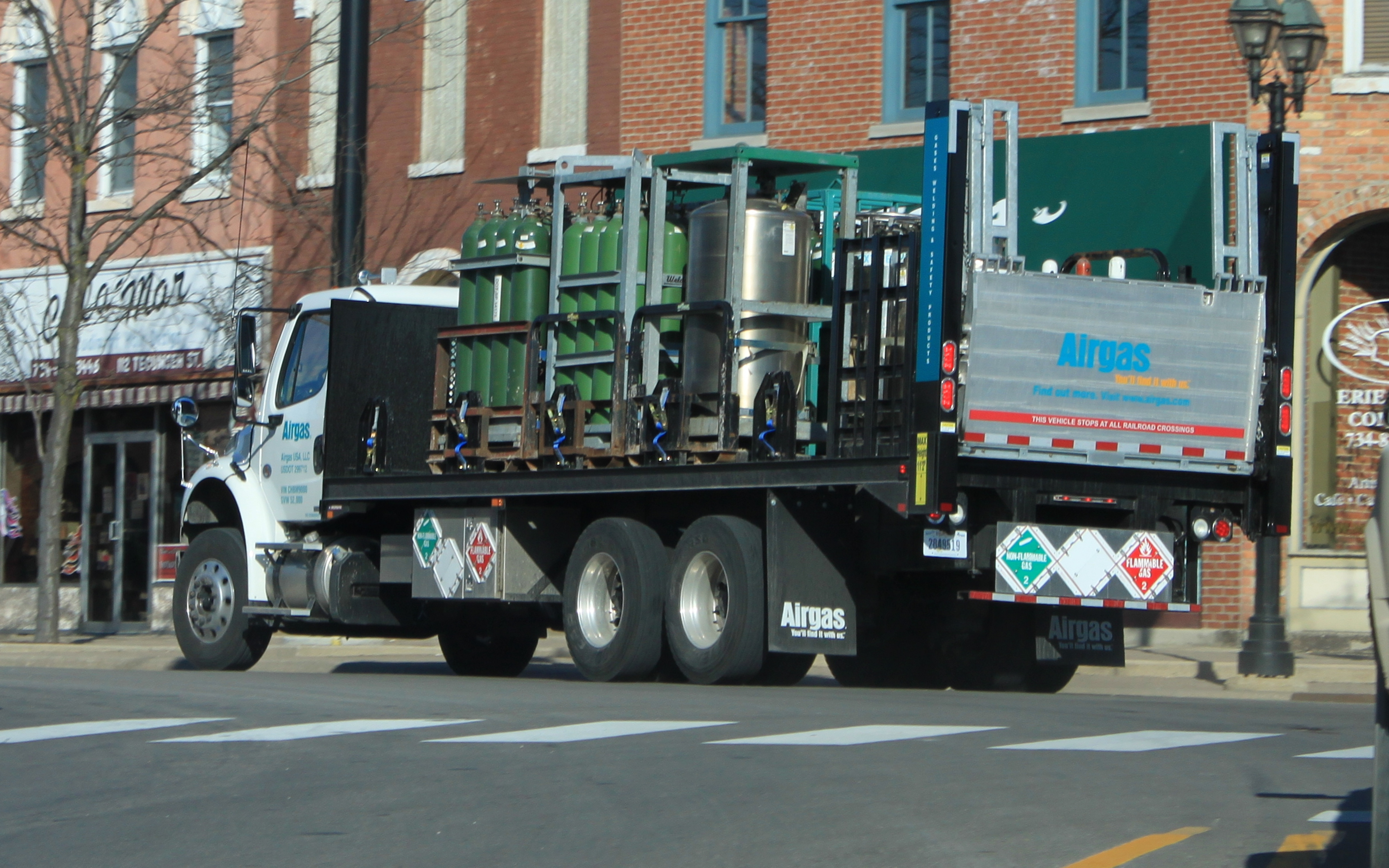 Airgas delivery truck on M-50, downtown Dundee, Michigan.